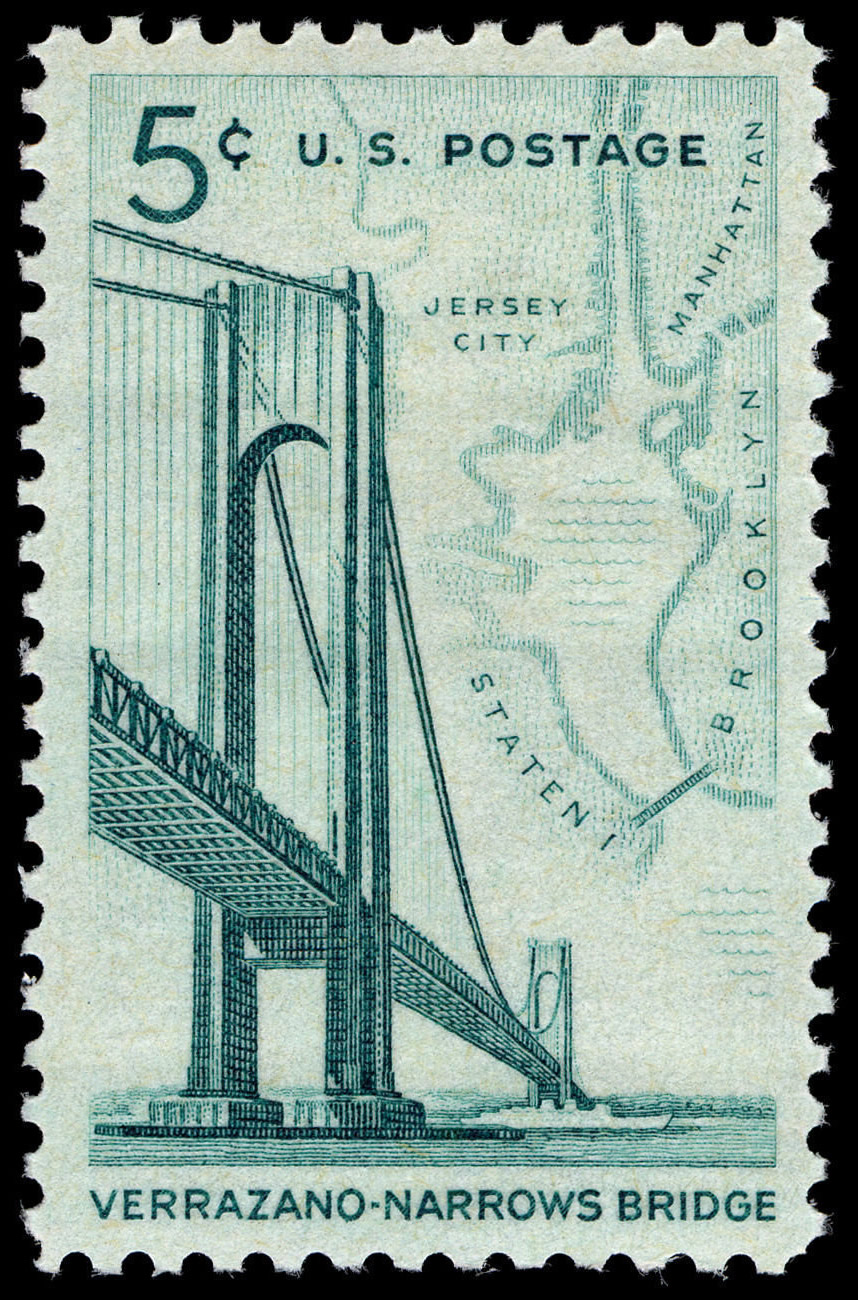 Verrazano–Narrows Bridge 5-cent 1964 issue U.S. stamp.